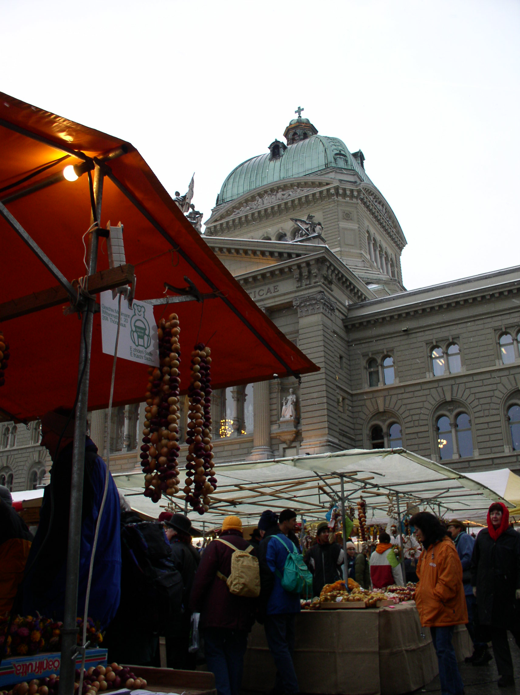 Zibelemärit in Berne, the Federal Palace of Switzerland is visible in the background